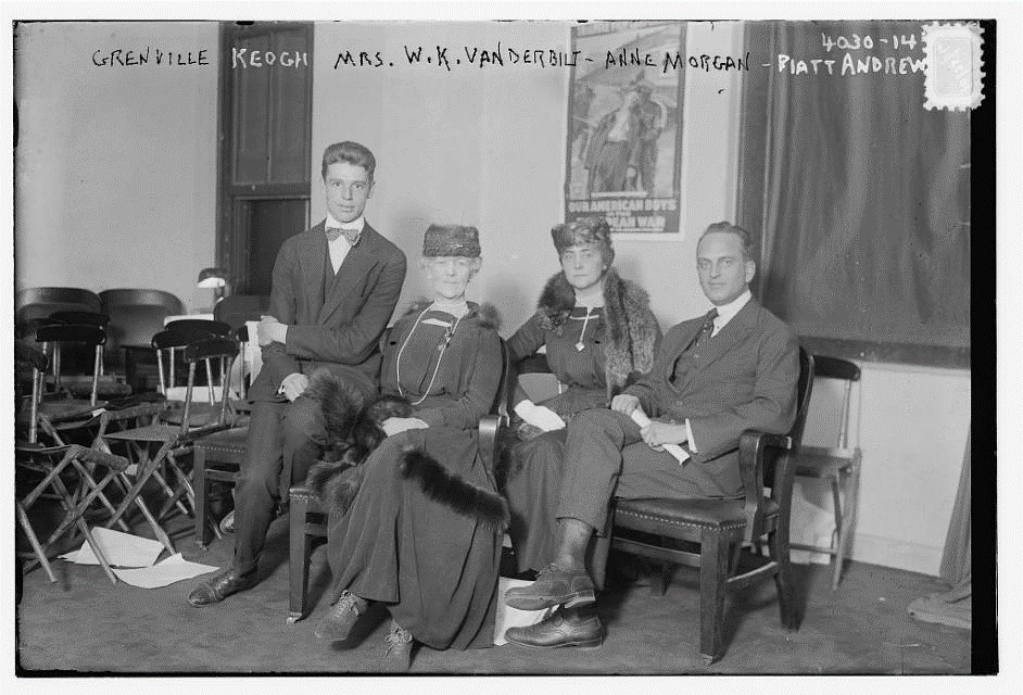 Bain News Service/LOC ggbain.23095. Grenville Keogh, Mrs. W.K. Vanderbilt, Anne Morgan, Piatt Andrew, 1916 (Grenville Keogh was an ambulance driver for the American Ambulance Field Service)